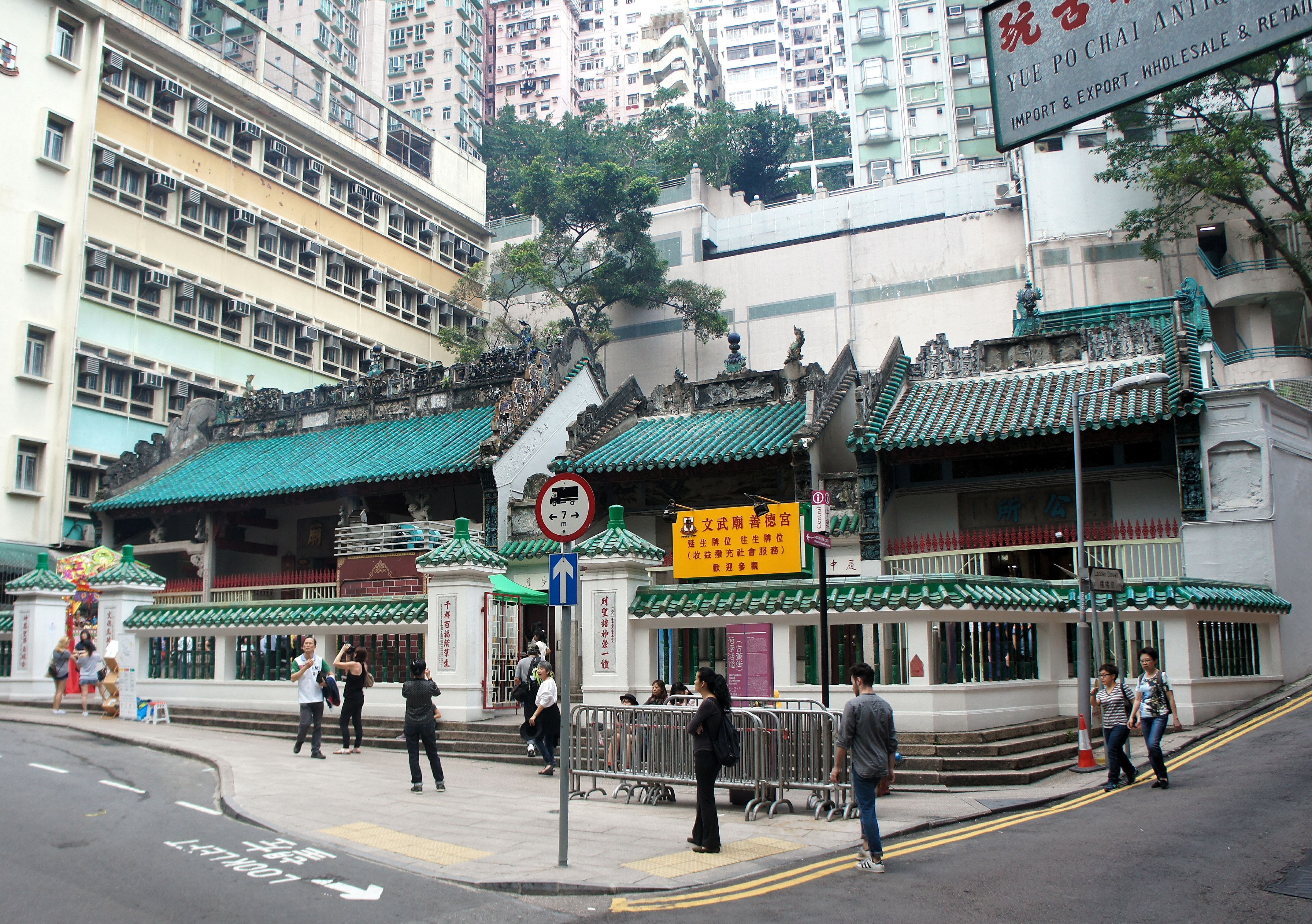 The Man Mo Temple in Sheung Wan (Hong Kong, People's Republic of China).